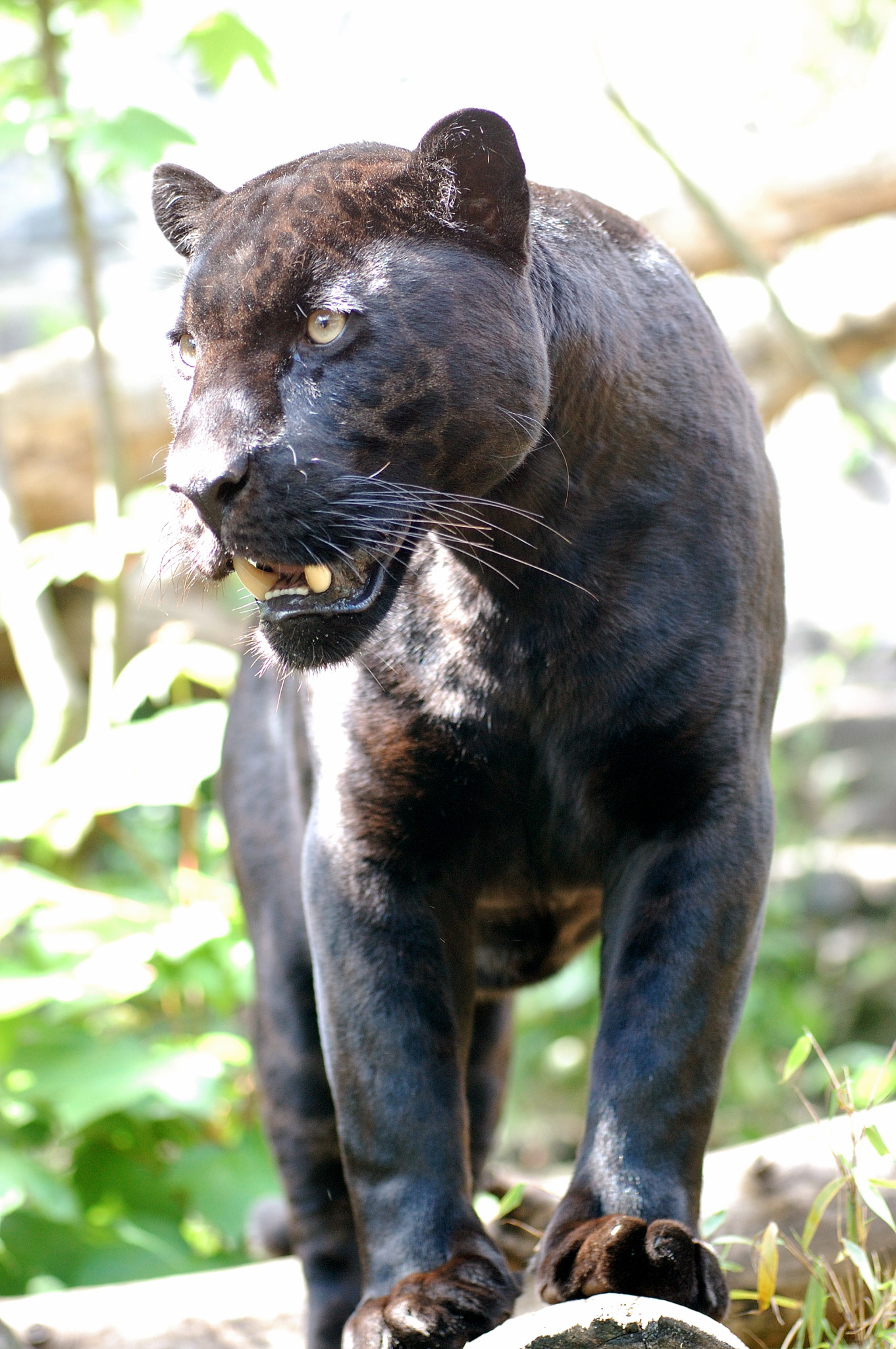 A Jaguar Black Panther